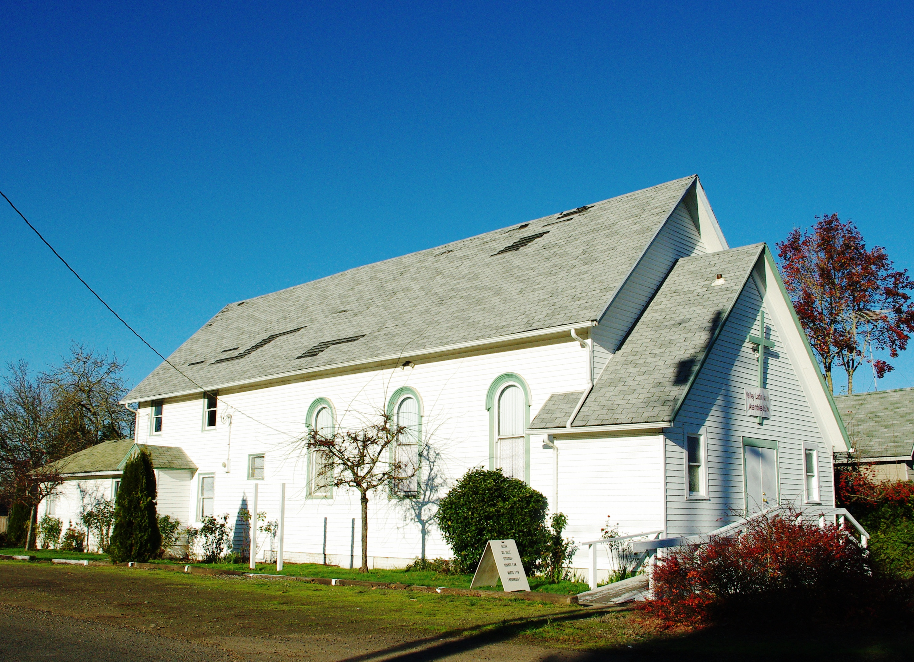 Property listed on the National Register of Historic Places in Dayton, Oregon. Free Methodist Church (Dayton, Oregon)